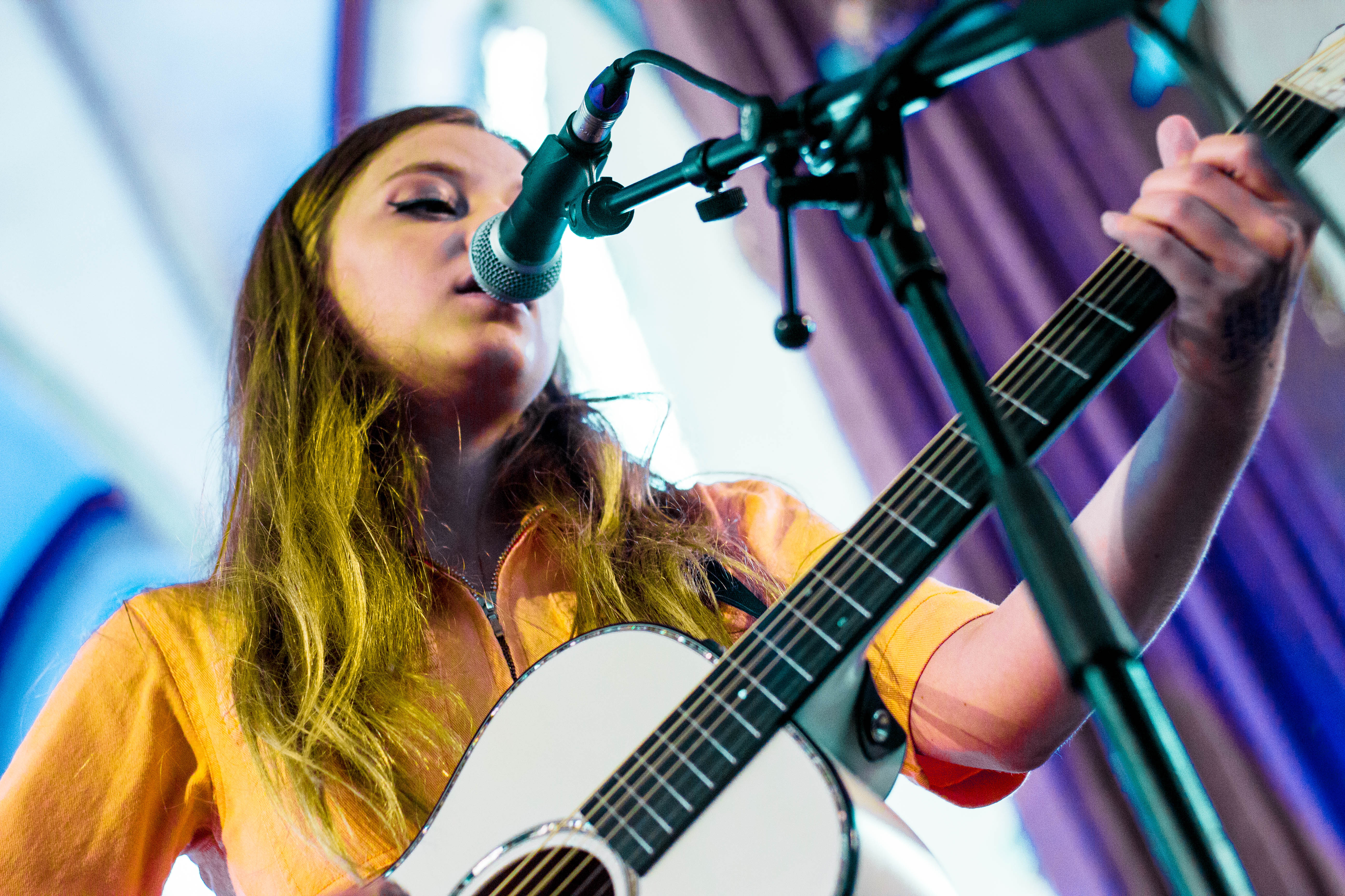 Jade Bird at Haldern Pop Festival 2018 in Haldern